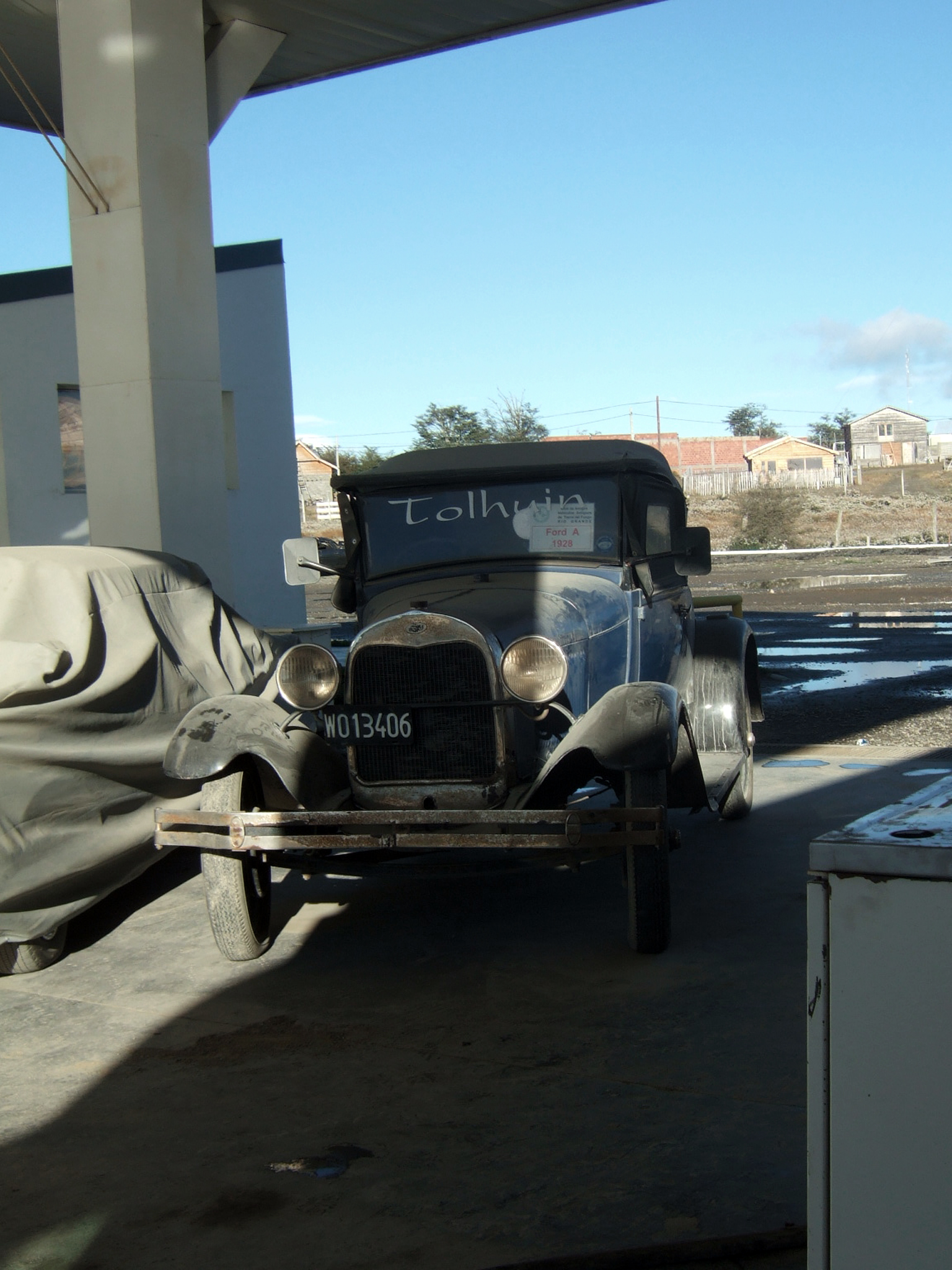 Vintage 1928 Ford Model A for sale in Patagonia, possibly still running and probably a nice restoration project, these Fords dotted the countryside up to about 1965. A bit of history: In late 1913, Ford Motor Co. decided to instal in Buenos Aires the first Latin American subsidiary and the second in the world. In 1917, after having sold more than 3500 vehicles, local assembly began with complete knock down kits imported from the US. That same year, the parent company approves a $240,000 investment to build an manufacturing plant in the neighborhood of La Boca and Ford Motor Company of Argentina was born. In 1925 with the production of the famous Model "T", the first Ford plant in Latin America is inaugurated. At that time the products are marketed through a network of 285 dealers. The administrative staff and workers totaled 400. Shortly thereafter, due to growing demand, the plant must be expanded reaching its staff to 1,500 people. In 1927 at the La Boca plant the Ford "T" number 100,000 is manufactured. Later that year, Ford introduced the "A", successor to the Model "T".